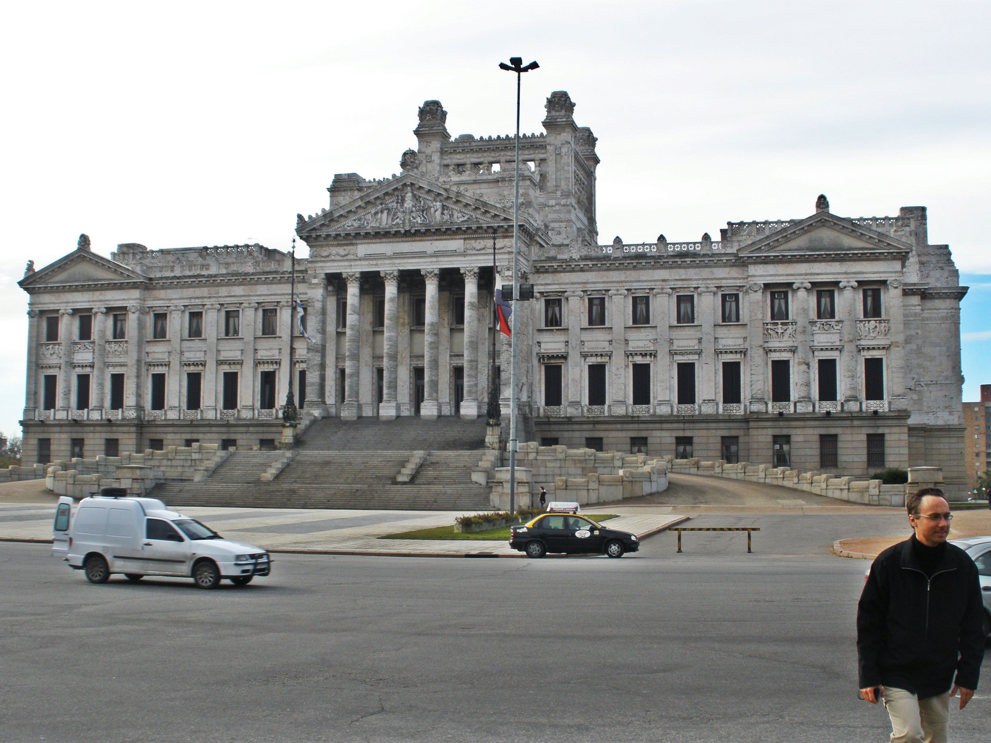 The Legislative Palace, Montevideo, seat of the Legislative Power of Uruguay. El Palacio Legislativo, Montevideo, sede del Poder Legislativo de Uruguay.